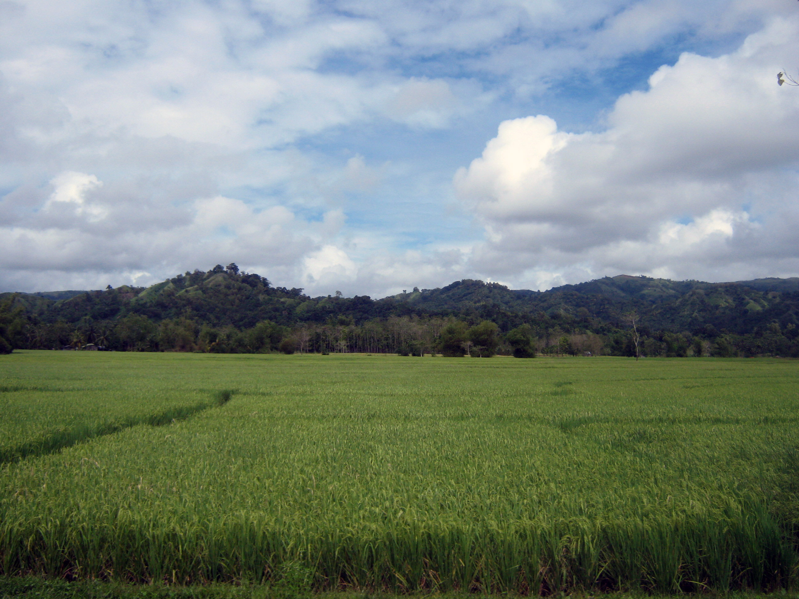 Rice field in Hinoba-an, Negros Occidental, Philippines